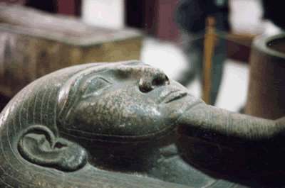 Head of the Sarcophagus of Amenhotep Huy, time Ramses II